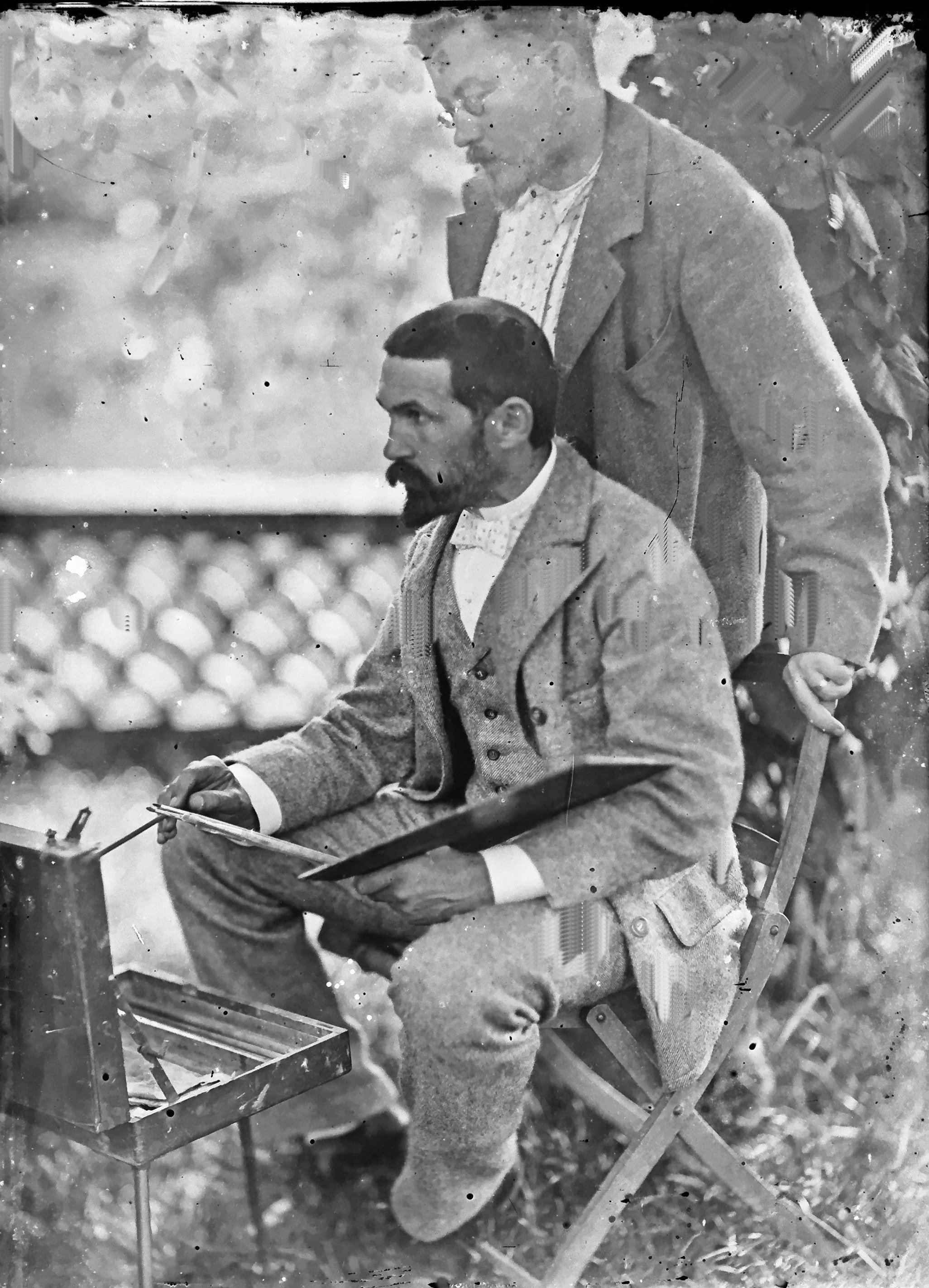 Jules-Alexis Muenier and Pascal Dagnan-Bouveret